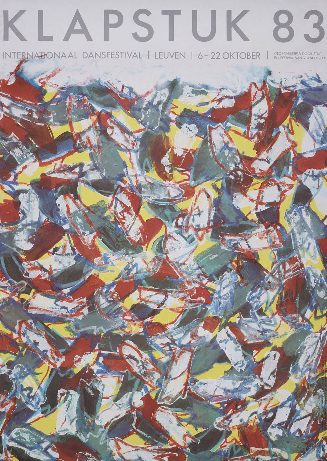 Poster designed by Michel van Beirendonck for the performing arts festival Klapstuk 83 (1983)